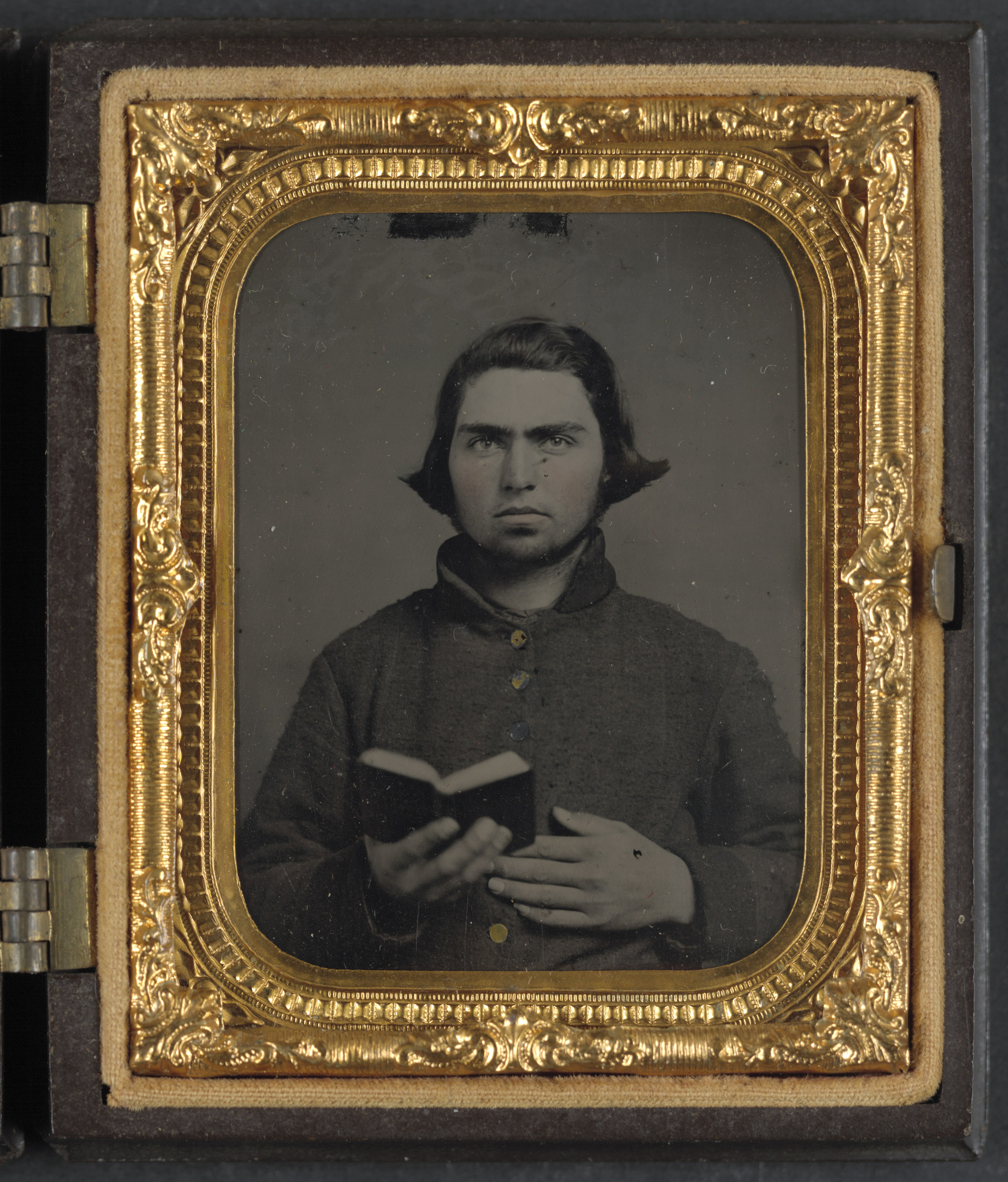 Title: Private Thomas McCreary of Co. E, 3rd Kentucky Cavalry Regiment, in a Columbus depot jacket and holding a book Abstract/medium: 1 photograph : ninth-plate ambrotype, hand-colored ; 7.5 x 6.3 cm (case)